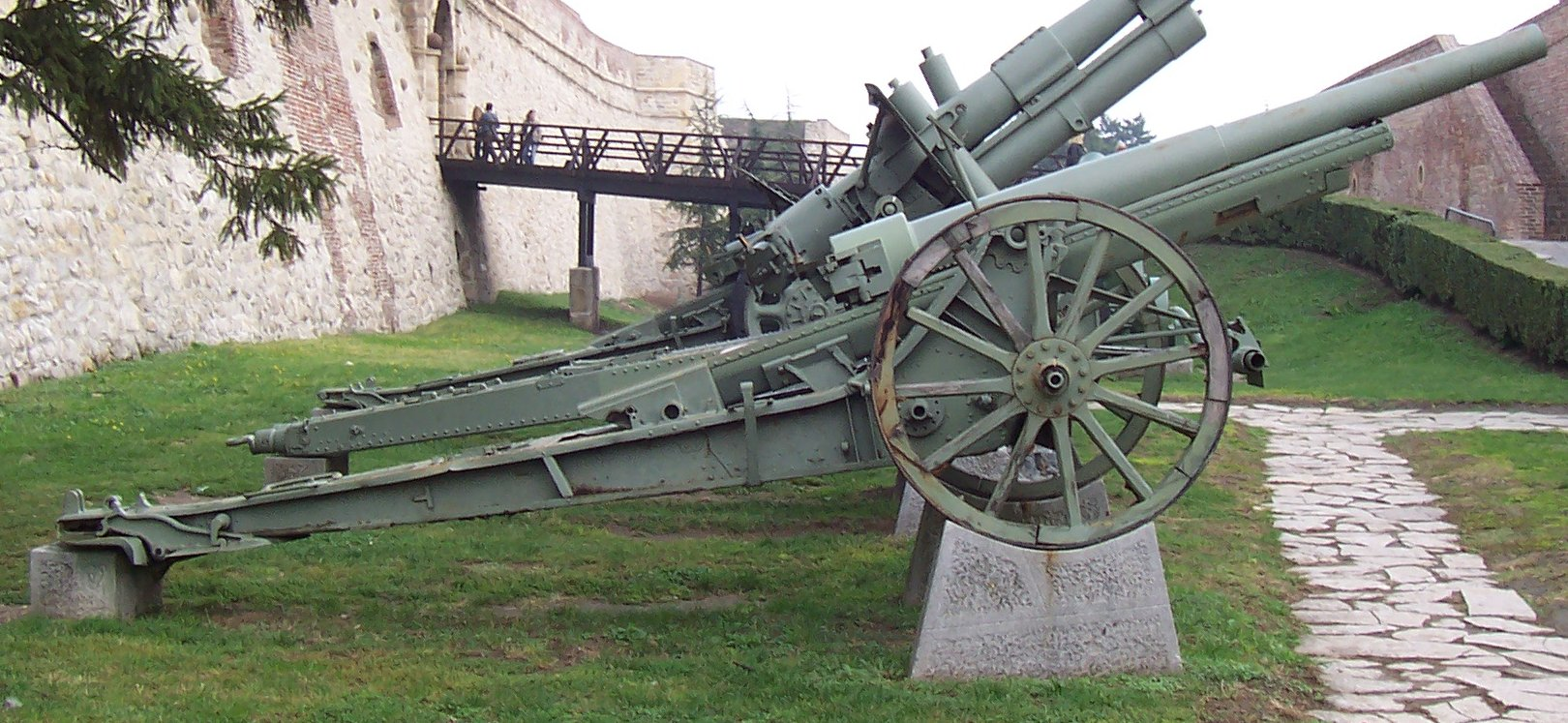 Schneider-Ansaldo 105mm Model 1913 field howitzer – side view. Taken at the Belgrade Military Museum.